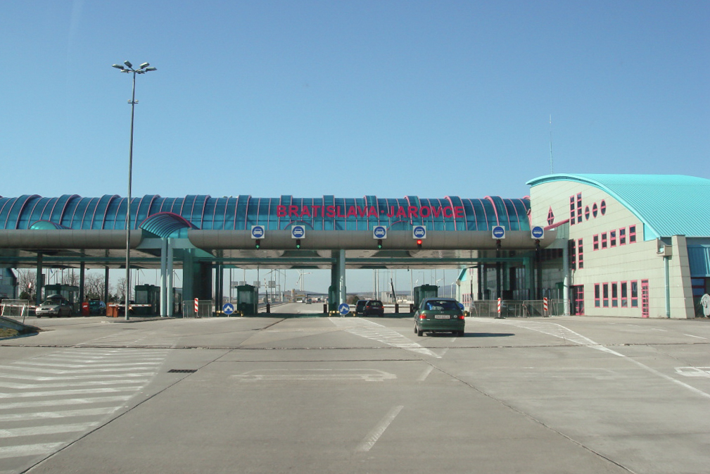 Former motorway border checkpoint Jarovce-Kittsee between Slovakia and Austria (view from Slovakia). Due to extension of the Schengen zone on 21 December 2007 it is abandoned now.